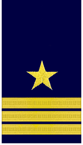 Military rank insignia of the German Kriegsmarine until 1945, here sleeve insignia lieutenant ; since 1944 commander .